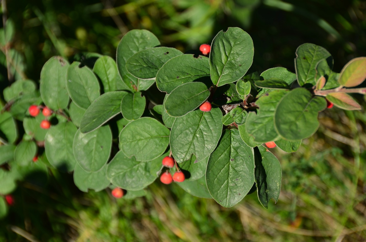 Cotoneaster nebrodensis